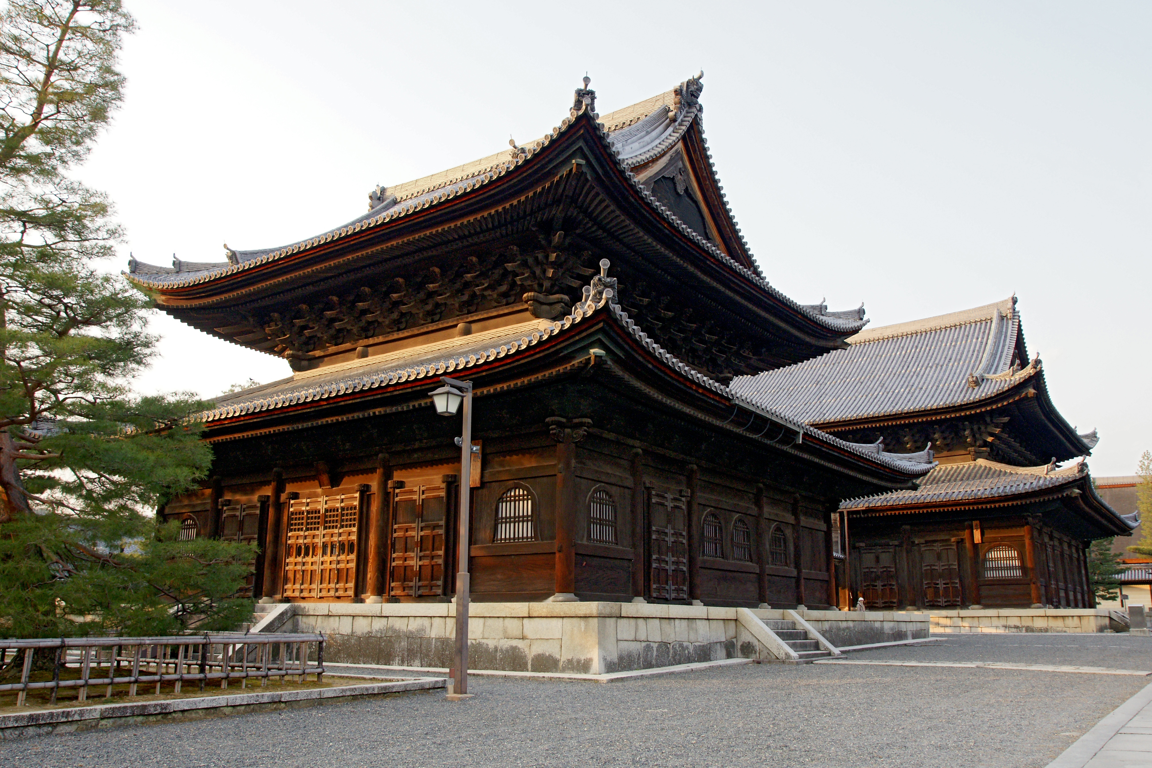 Myōshin-ji in Kyoto, Kyoto prefecture, Japan